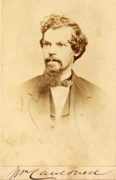 Photo of William Cauldwell, propreitor of the New York Sunday Mercury and NY State Senator